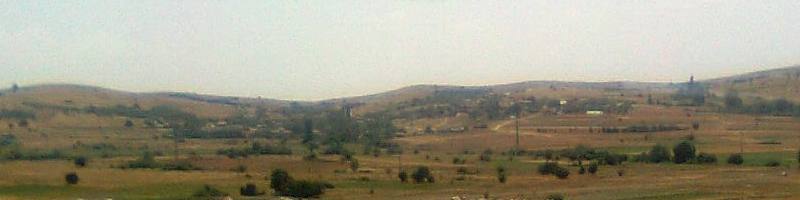 Panorama of Alinci [Prilep] from Omec Hill